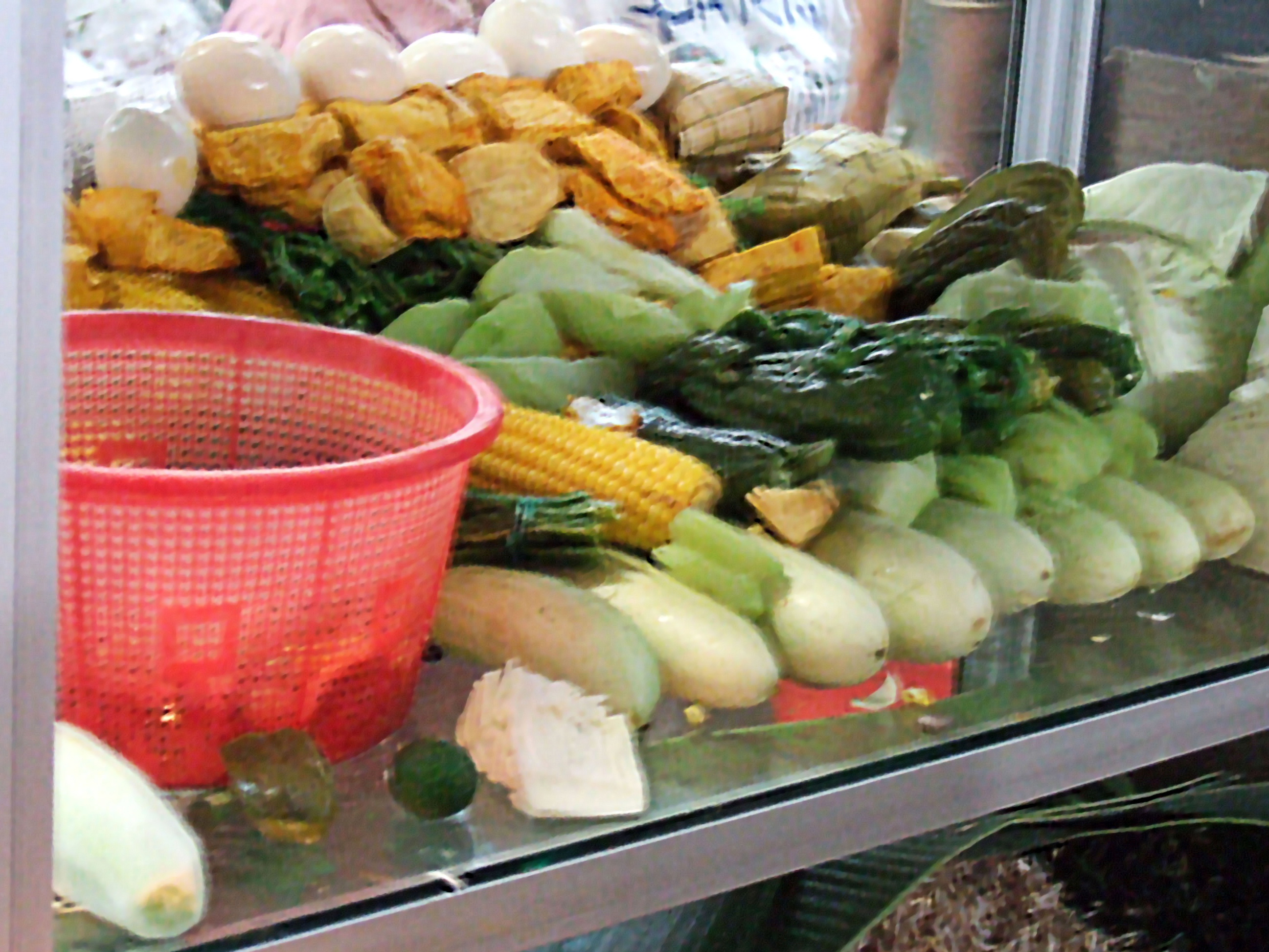 Gado-Gado Ingredients, Jakarta, Indonesia